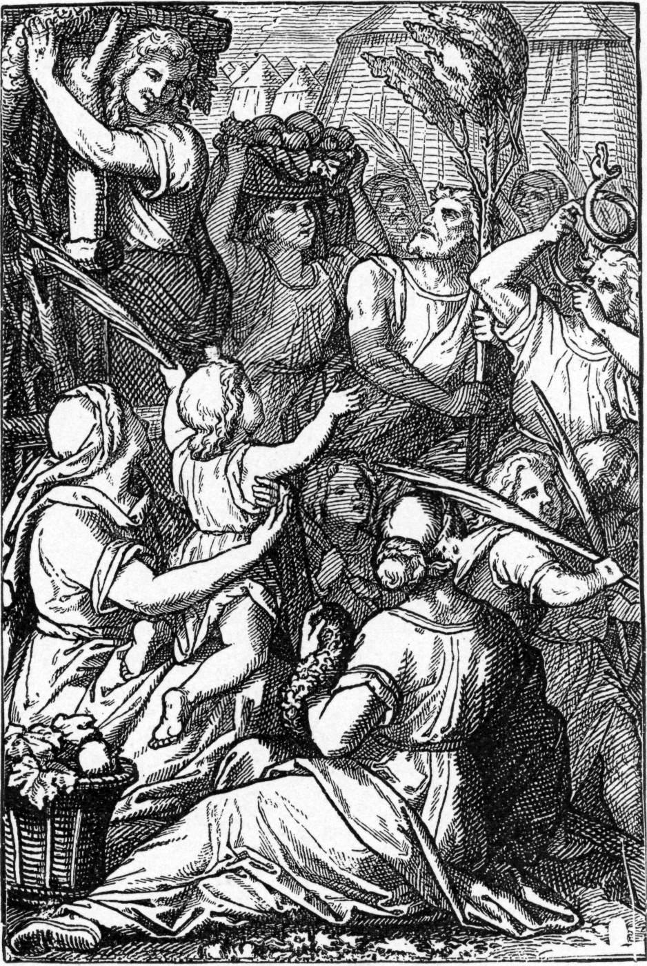 Carrying Branches To Make Booths. Caption: "The people are all carrying branches of trees. They have been out in the woods and cut off the branches. They are going to make little tents, or booths, out of them, in the streets and on the tops of their houses. Then they will come away from their homes and live in these booths for seven days. And all that time they will have a feast. God told them to build these green booths and to have this feast. It is called the Feast of Tabernacles. All the people are very happy while they are having the Feast of Tabernacles. God loves his children to be happy." Illustration from the 1897 Bible Pictures and What They Teach Us: Containing 400 Illustrations from the Old and New Testaments: With brief descriptions by Charles Foster